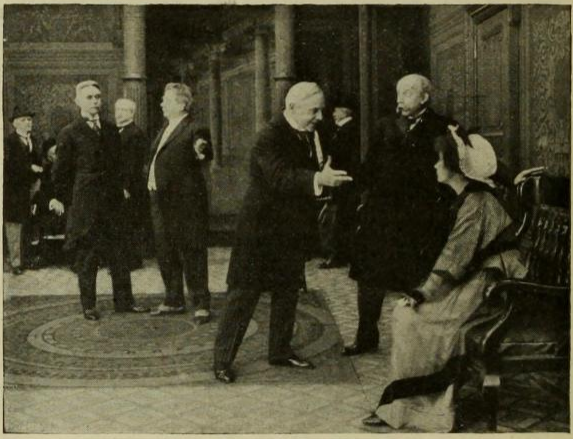 Still from 1915 silent film "The Senator", appearing in the December 25, 1915 edition of "Moving Picture World"